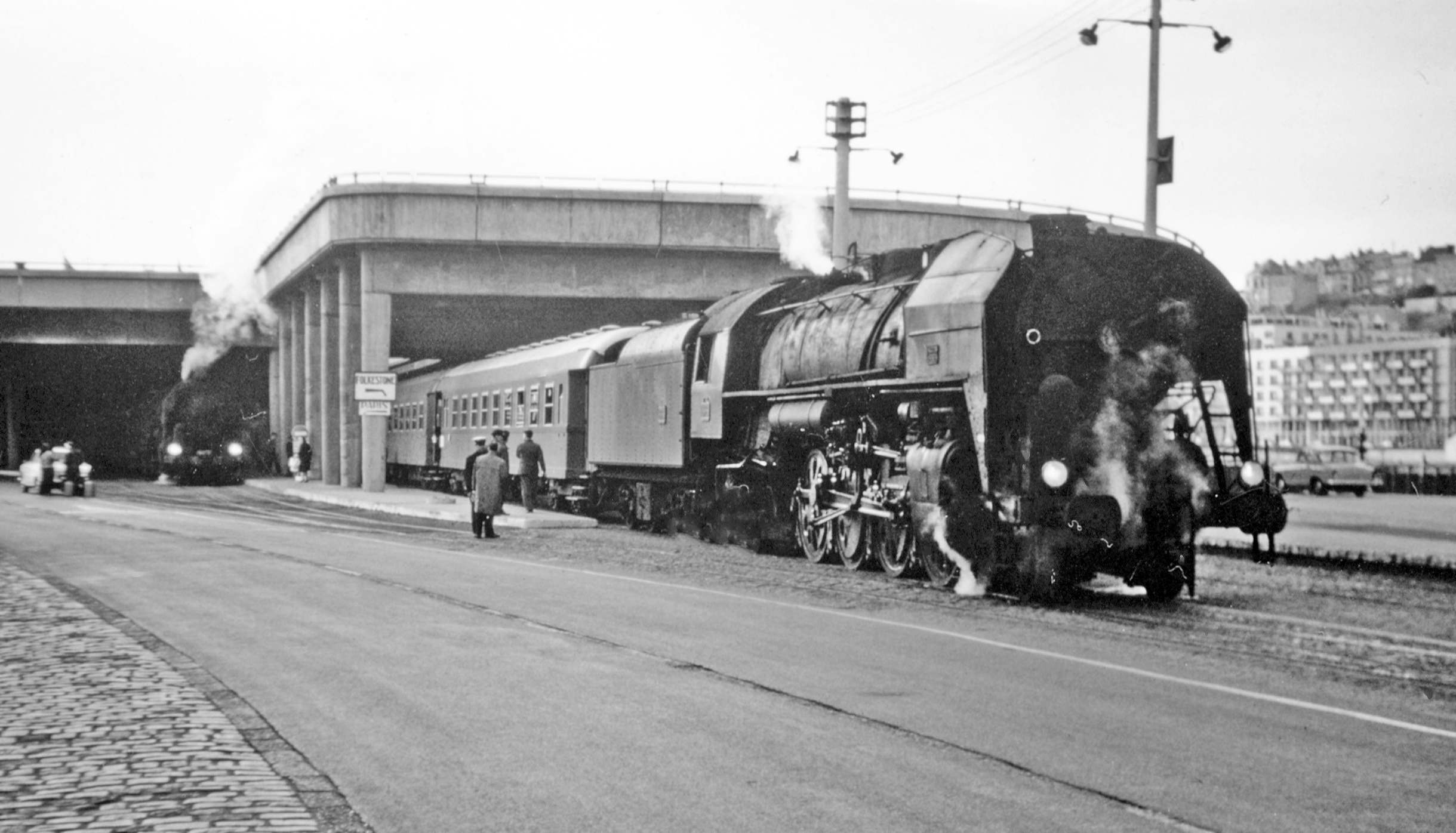 Boulogne (Pas de Calais) Maritime station, with an American-built class 141-R 2-8-2 waiting to leave on an express, 1965.